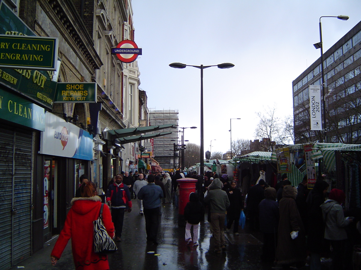 Whitechapel Market, Whitechapel Road, London, UK